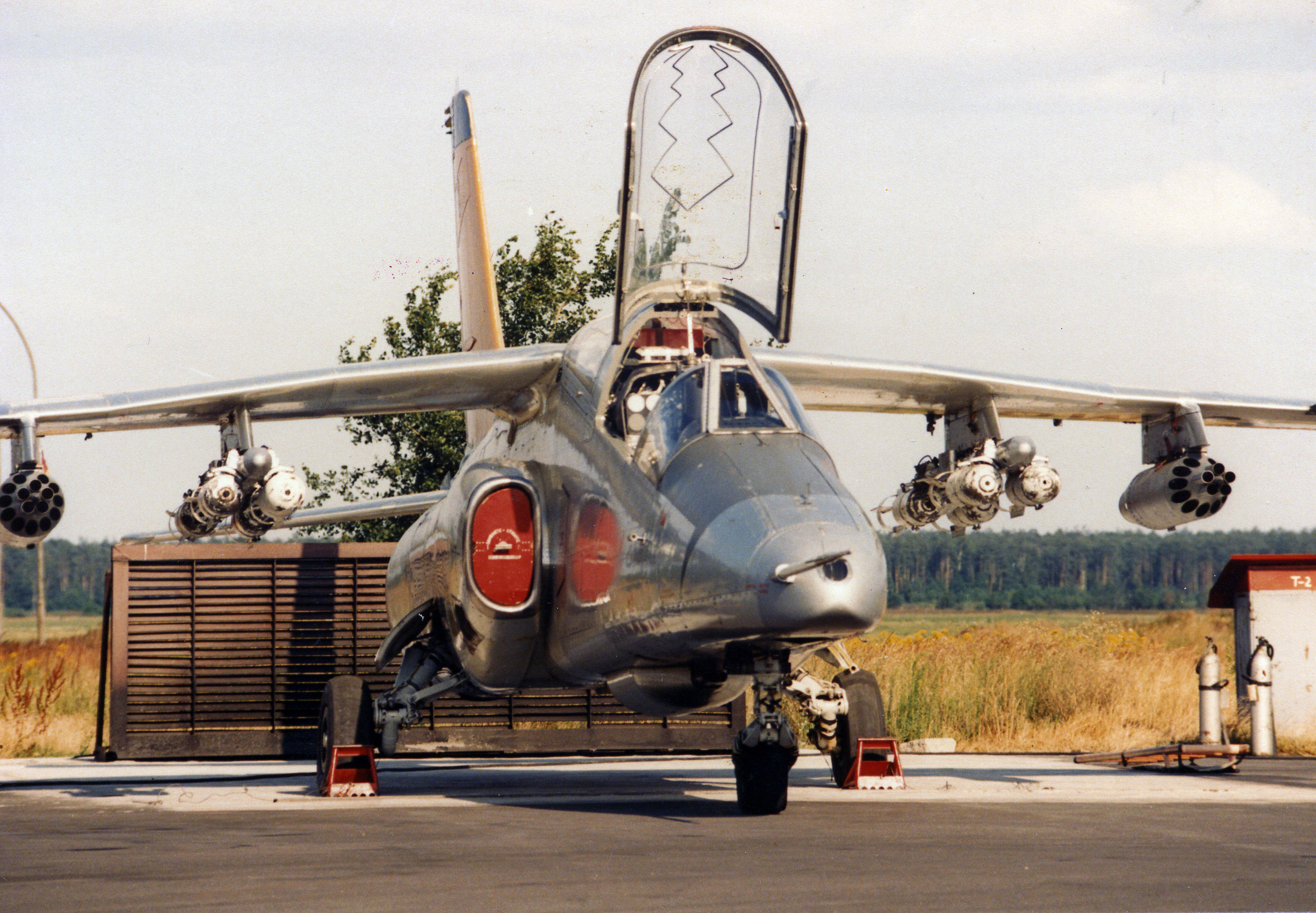 PZL I-22 IRYDA - Polish advanced trainer and light attack jet aircraft.